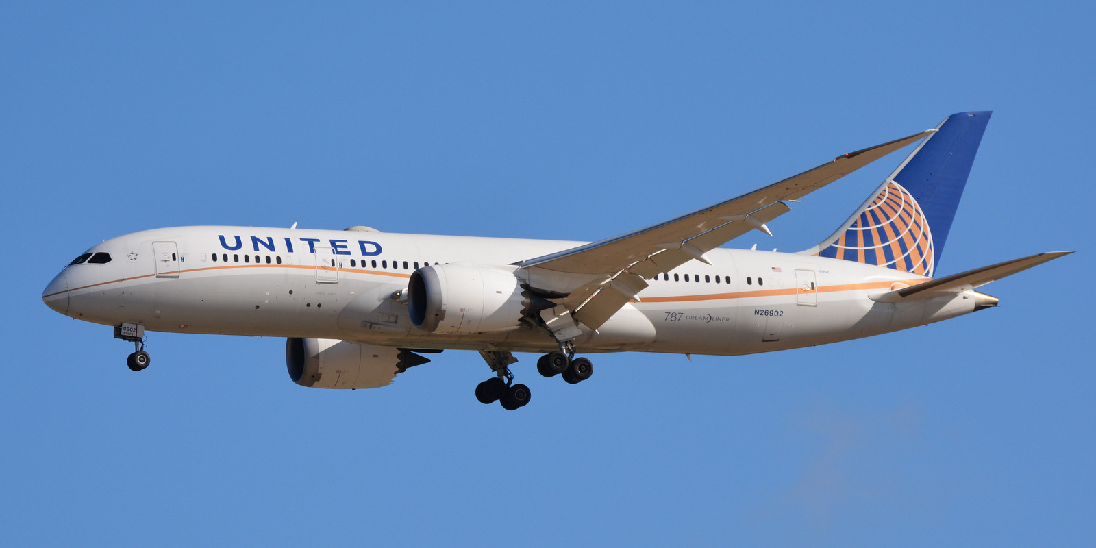 Paris-Charles de Gaulle Airport